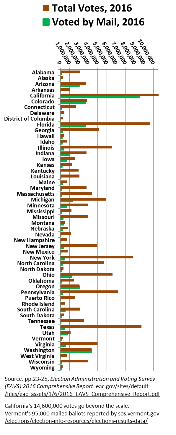 Source: pp.23-25, Election Administration and Voting Survey (EAVS) 2016 Comprehensive Report. California's 14,600,000 votes go beyond the scale. Vermont's 95,000 mailed ballots reported by